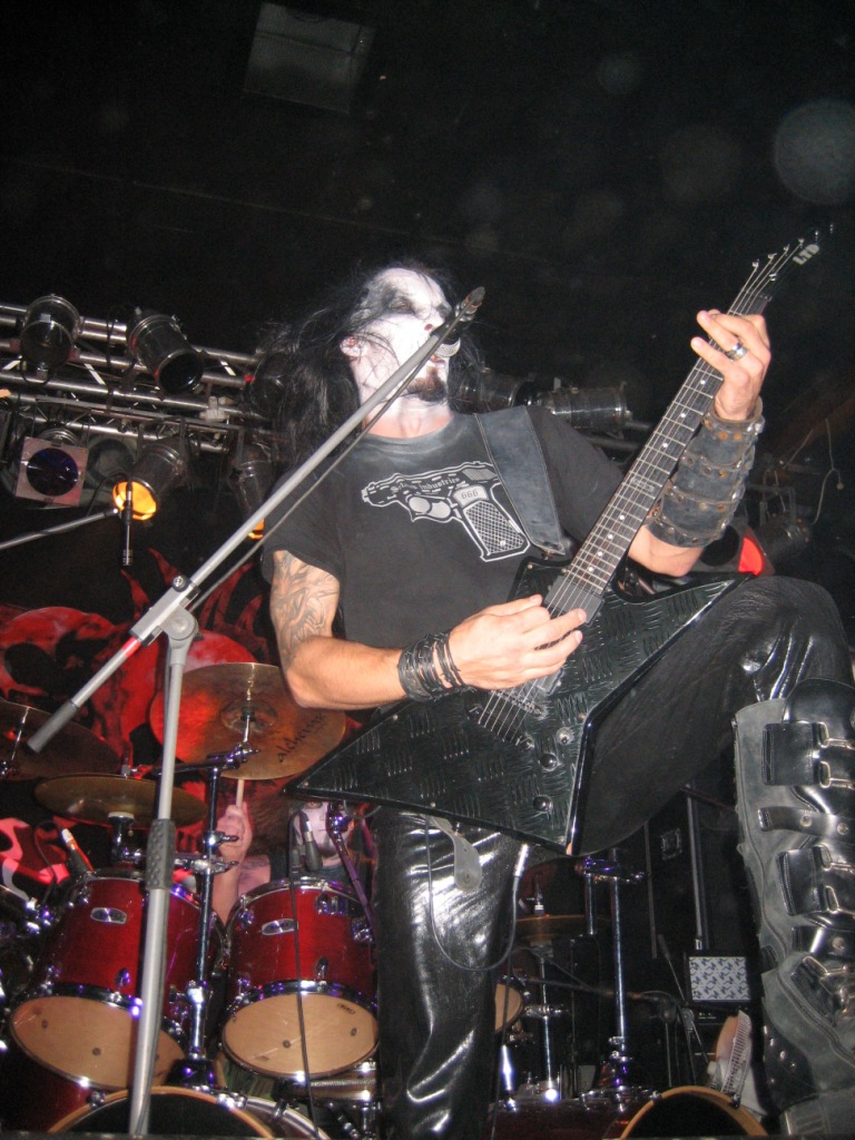 on picture Tomasz "Orion" Wróblewski member of Vesania polish black metal band